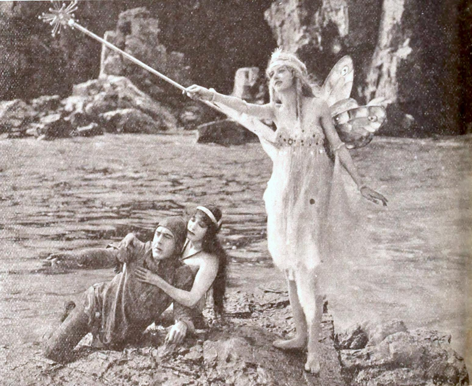 Scene from 1918 film Queen of the Sea. Beth Ivins (credited as Beth Irvine) as the fairy Ariela stands over Hugh Thompson and Annette Kellerman.